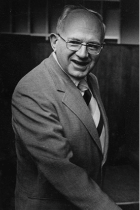 Portrait of Albert A. Kurland